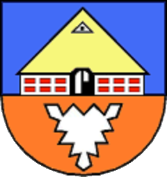 Coat of arms of the municipality Oldendorf in Schleswig-Holstein, Germany.